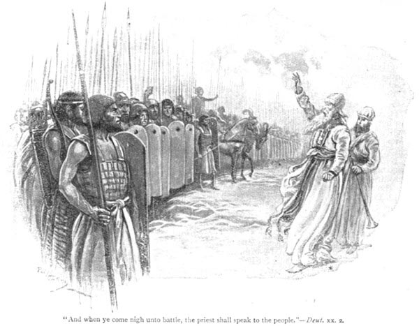 And when you come near to battle, the priest shall speak to the people. Deuteronomy 20:2. Illustration by David Paul Frederick Hardy (1862-1942), active 1890-1910.